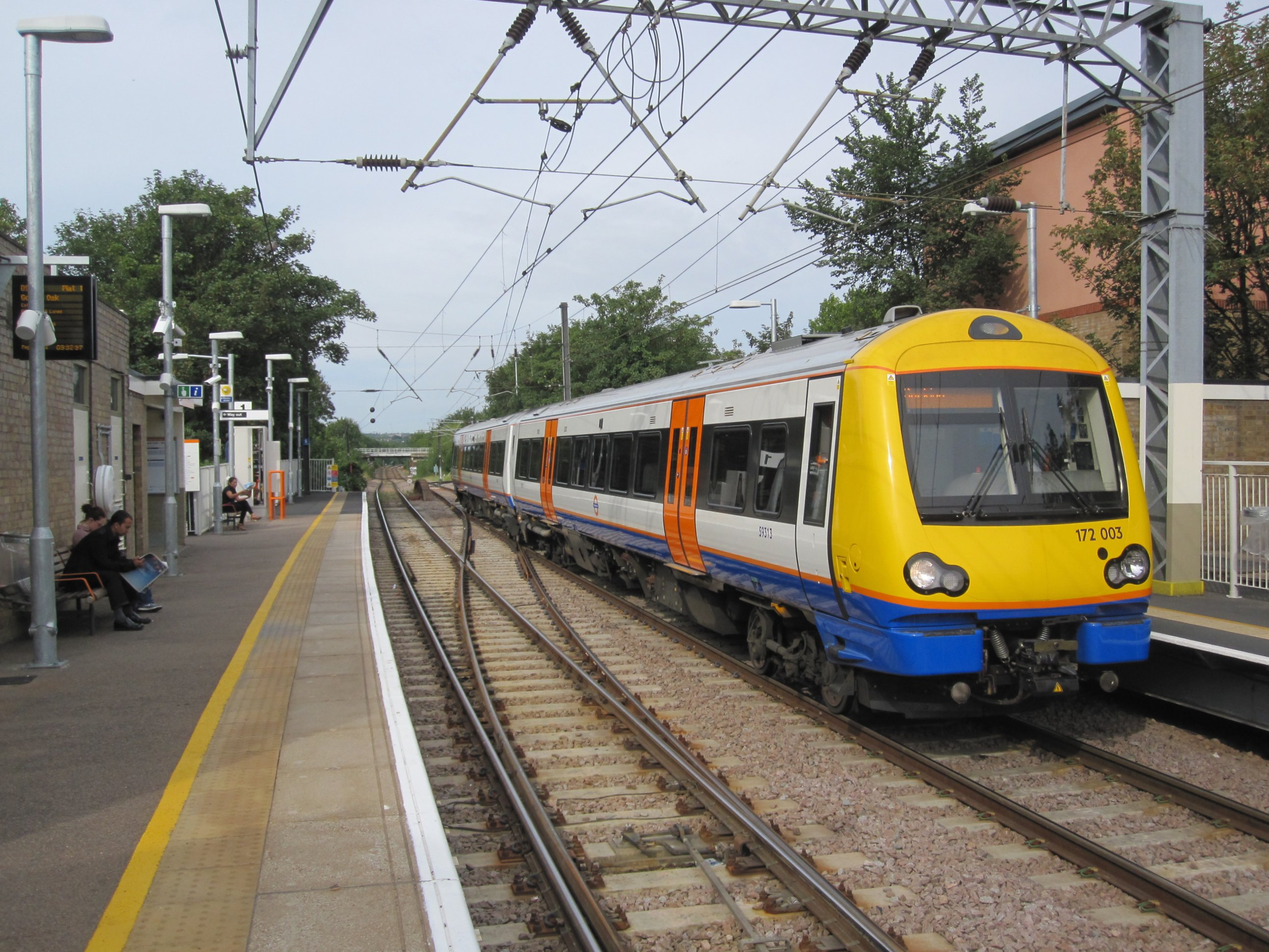 New look to the Gospel Oak to Barking Line. With London Overground having invested in 7 new class 172 units, the service frequency has been increased to 4tph. The route is shared with several freights that use sections of the line, timekeeping and reliability has reached a record high. As a result, trains are well loaded throughout the day, often to standing room only at peak periods. Seen on 17 August 2011, unit 172.003 is making its stop at South Tottenham whilst working the 09:20 Gospel Oak to Barking service.